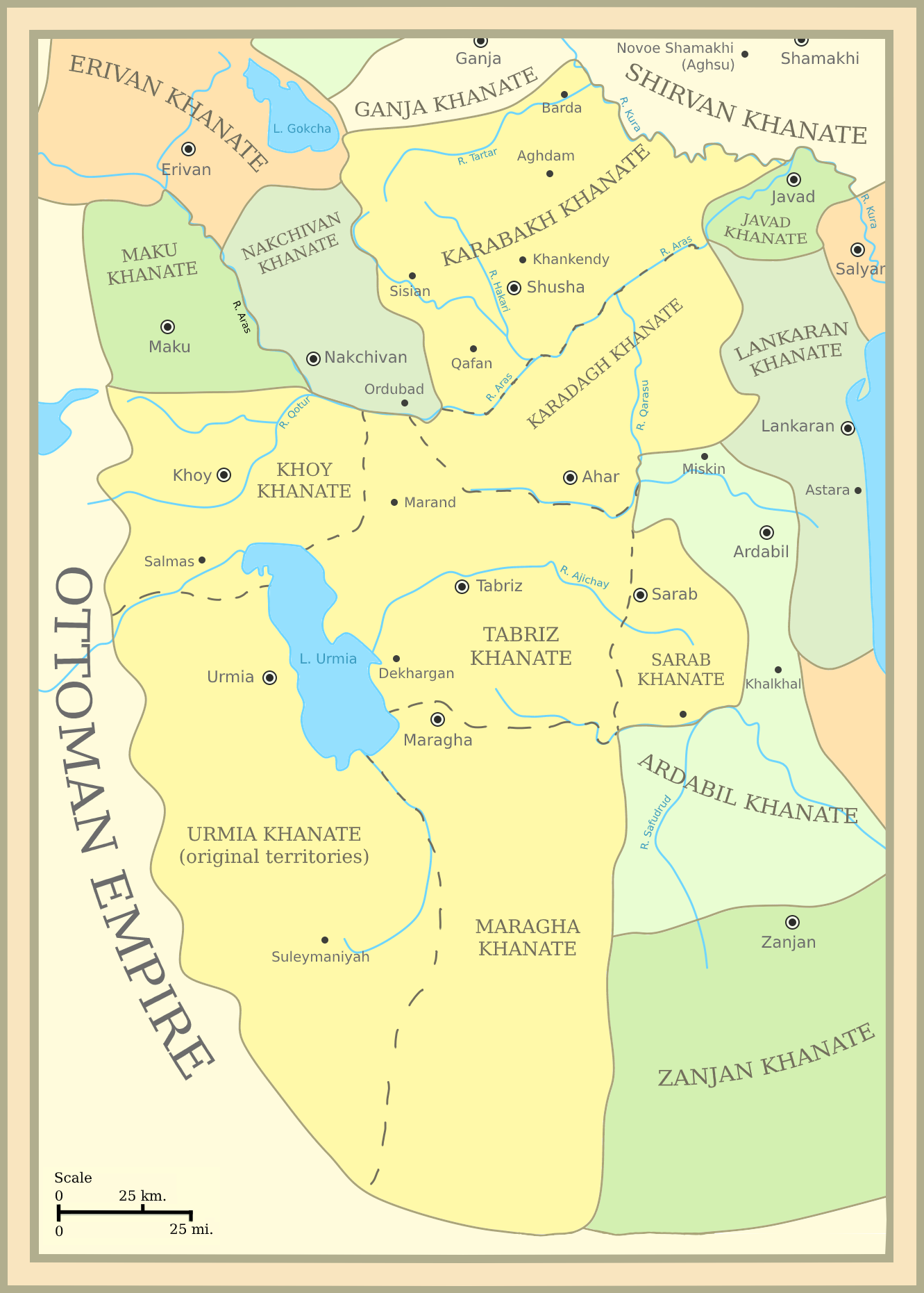 Map of the Urmia Khanate, one of the Caucasian Khanates, at its greatest extent, streching from Sultaniyeh to Barda